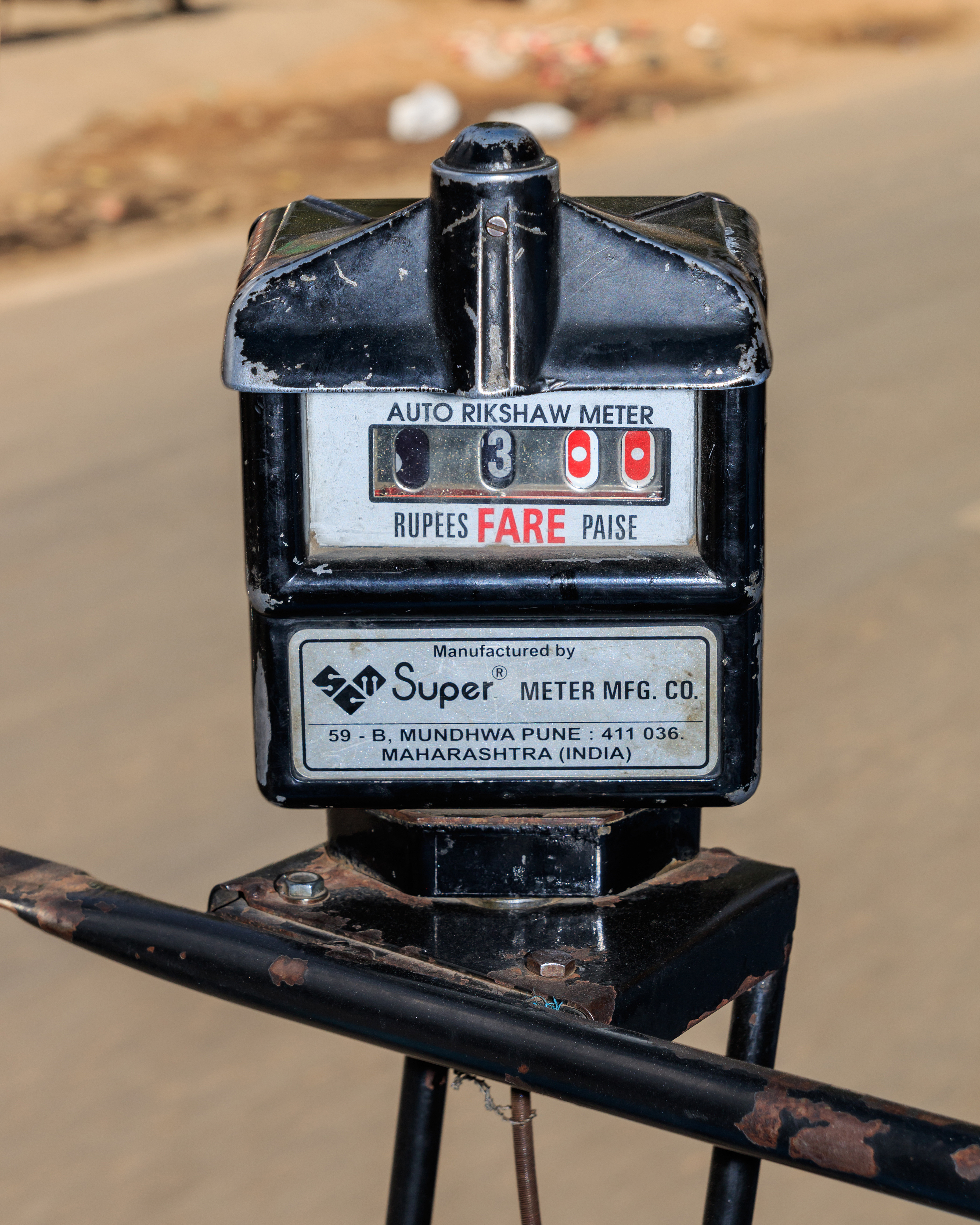 Meter of an auto rickshaw in Jaipur, India